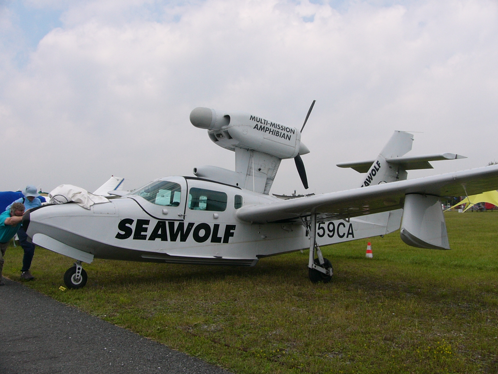 A Lake LA-4-250 Seawolf at Les Faucheurs de Marguerites, Sherbrooke Quebec, Canada